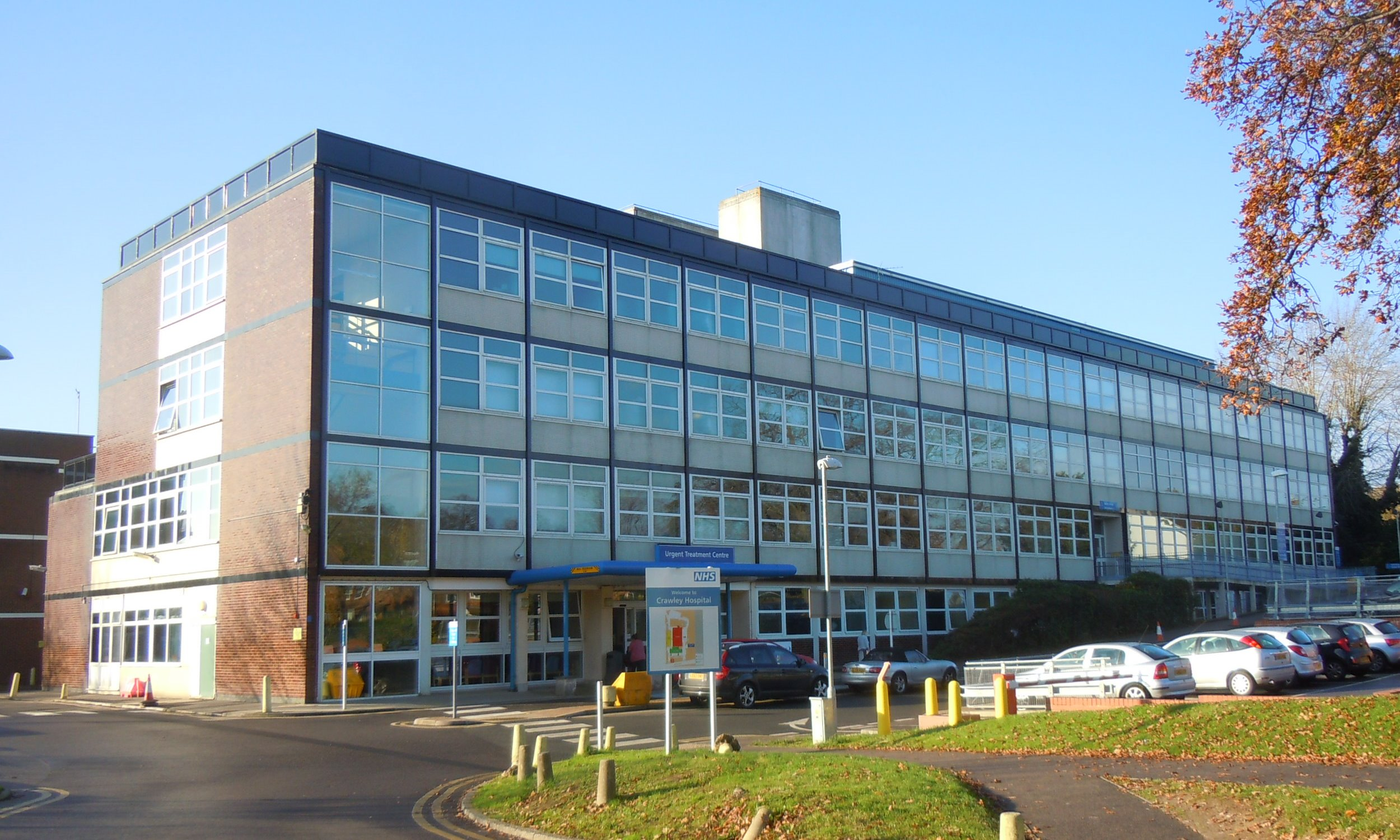 Crawley Hospital, Ifield Road, West Green, Crawley, West Sussex, England.